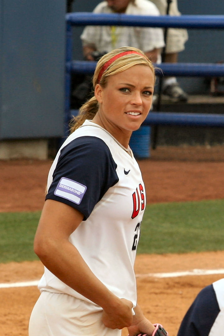 Jennie Finch pitching against China on June 8, 2008.